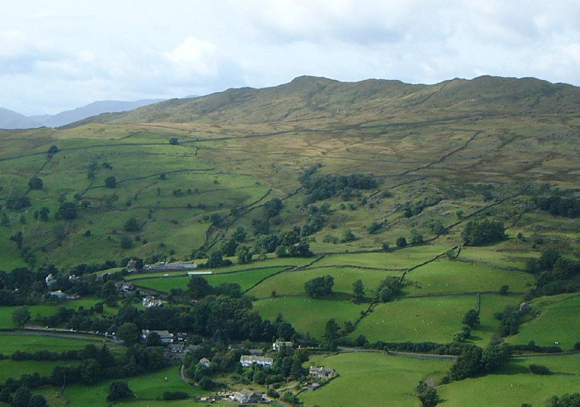 Personal picture taken by Mick Knapton